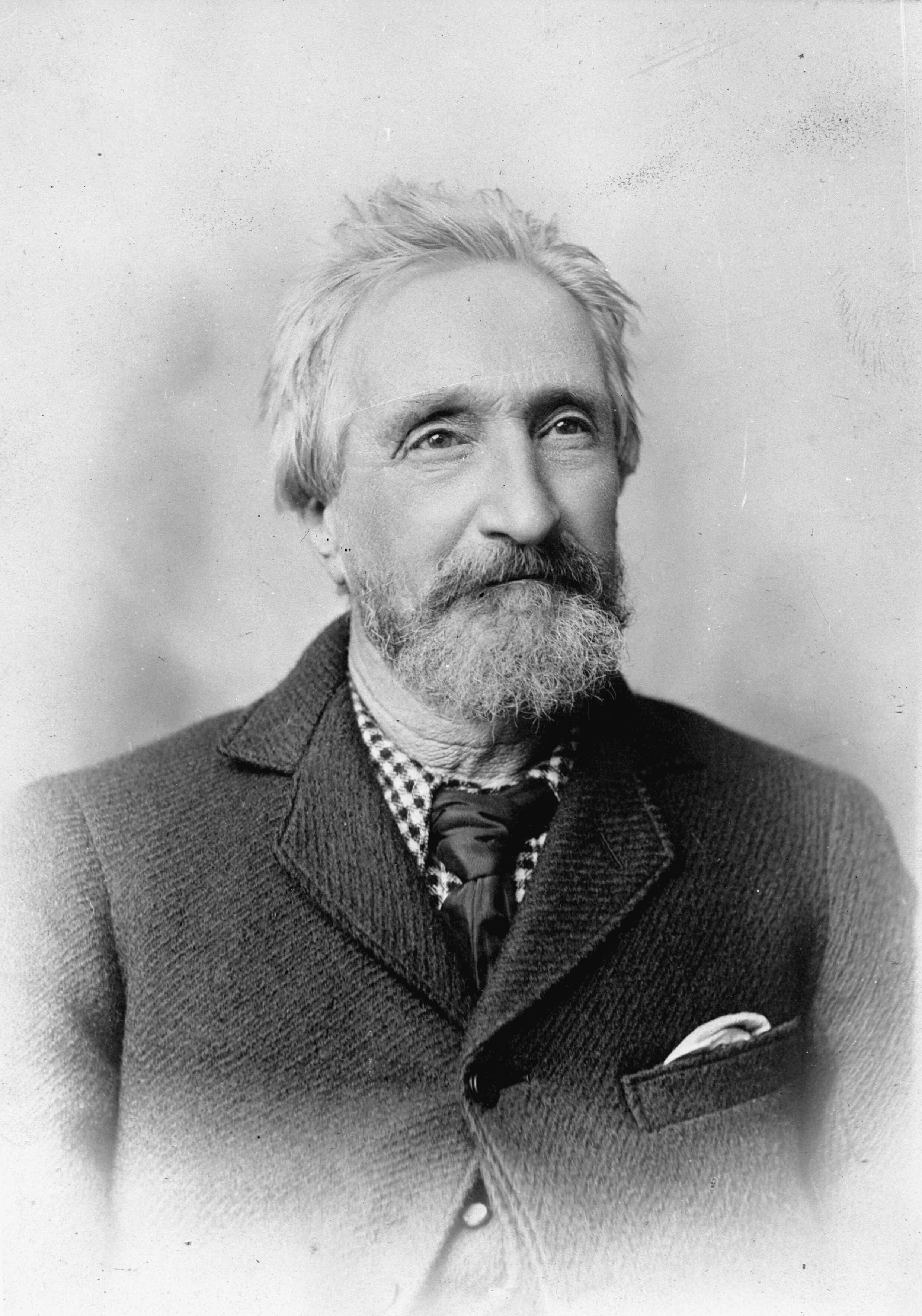 Head and shoulders portrait of Charles Edward Douglas, circa 1890. Photographer unidentified.